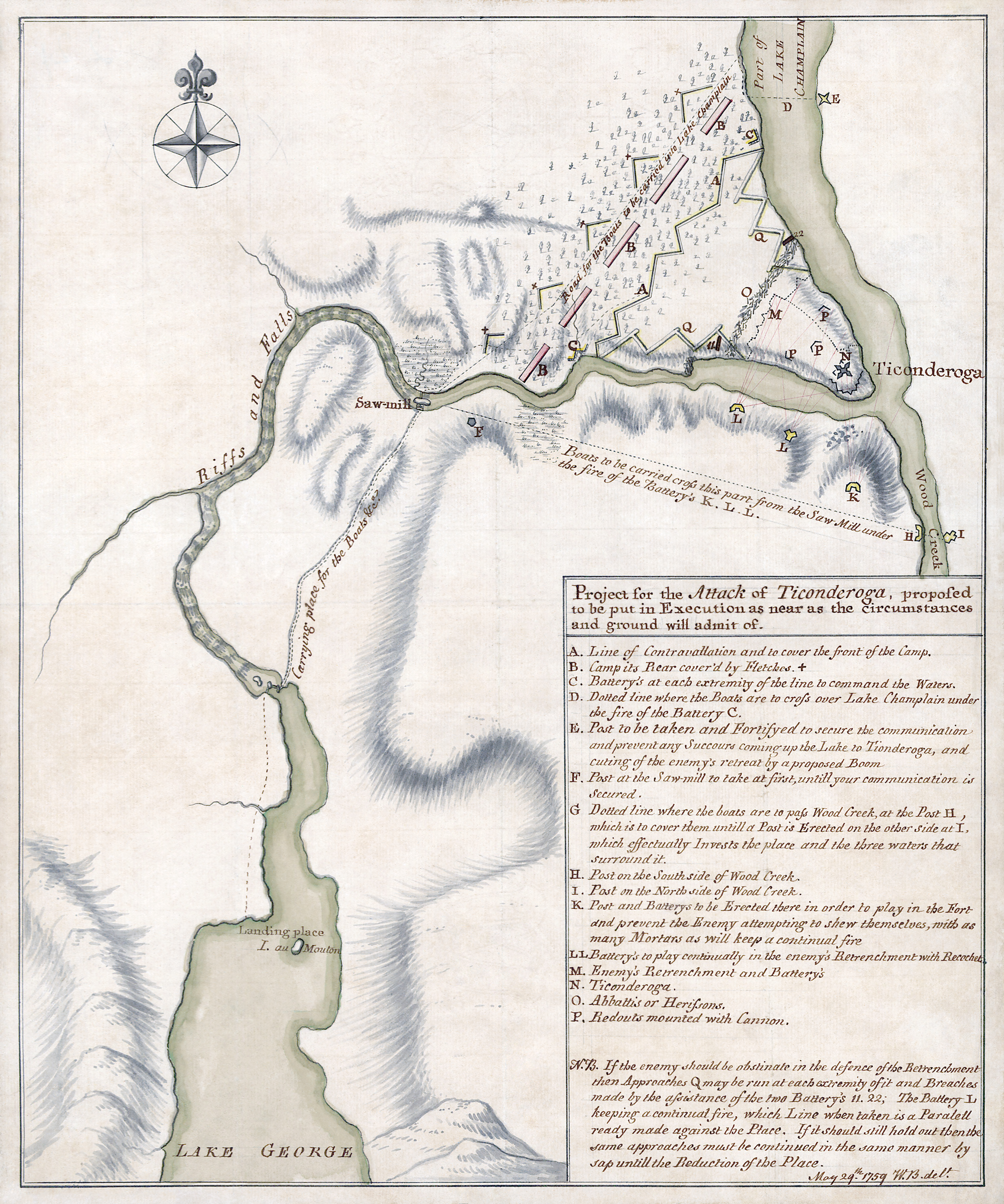 Project for the attack of Ticonderoga, proposed to be put in execution as near as the circumstances and ground will admit of. Scale ca. 1:15,400. Manuscript, pen-and-ink and watercolor. Relief shown by hachures. Includes index to military positions.